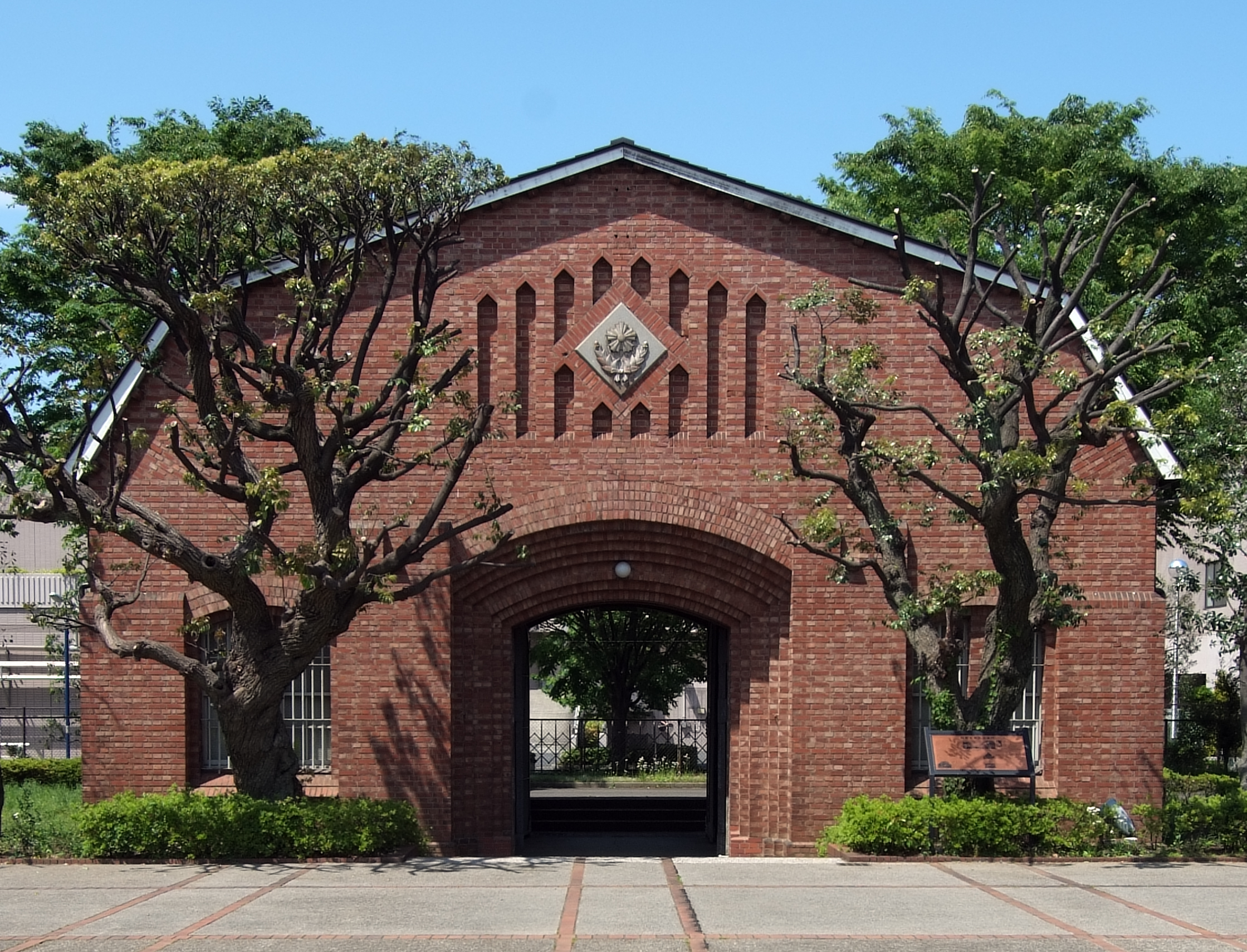 Former Toyotama Prison Omote Gate, nakano-ku Tokyo Japan, designed by Keiji Goto in 1915.